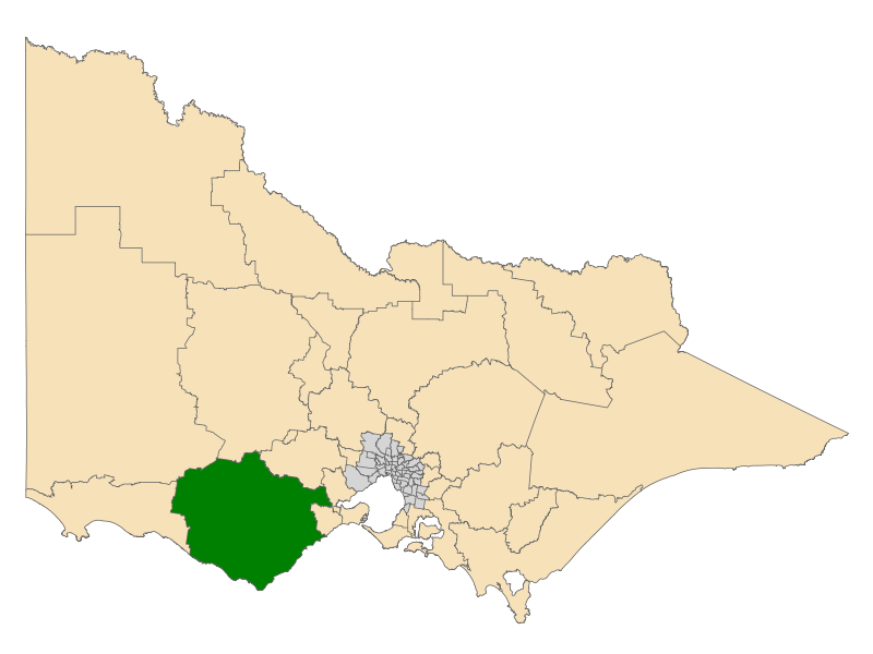 Location of the Electoral District of Polwarth (dark green) in the state of Victoria, Australia. These boundaries were used for the Victorian state election on 29 November 2014.